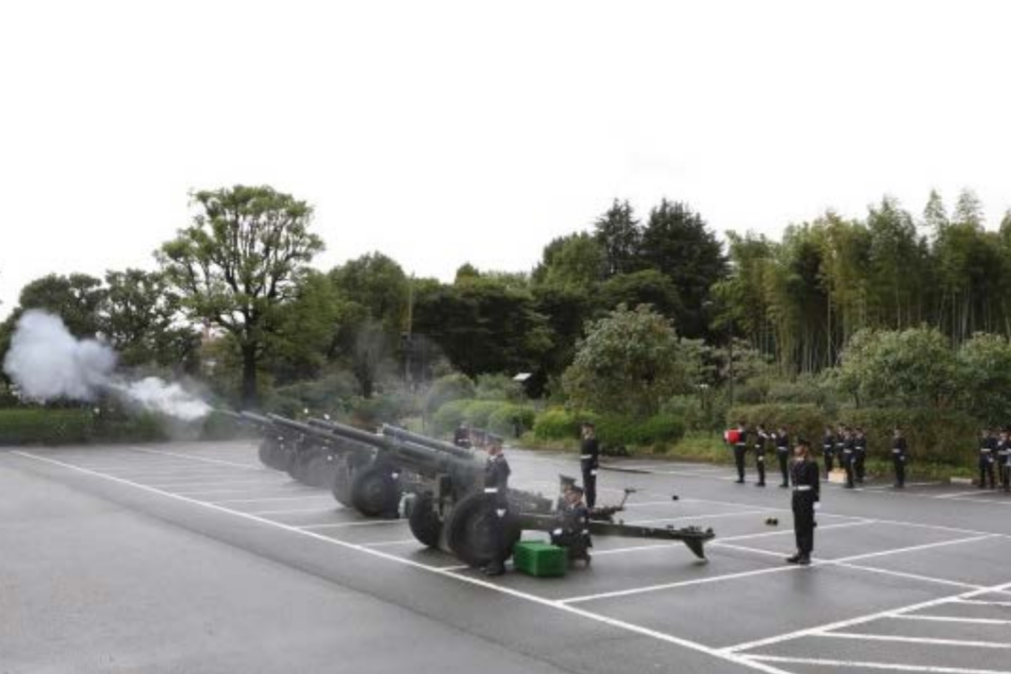 A 21 gun salute by the Self-Defense Forces at the Ceremony of the Enthronement at the Seiden State Hall.